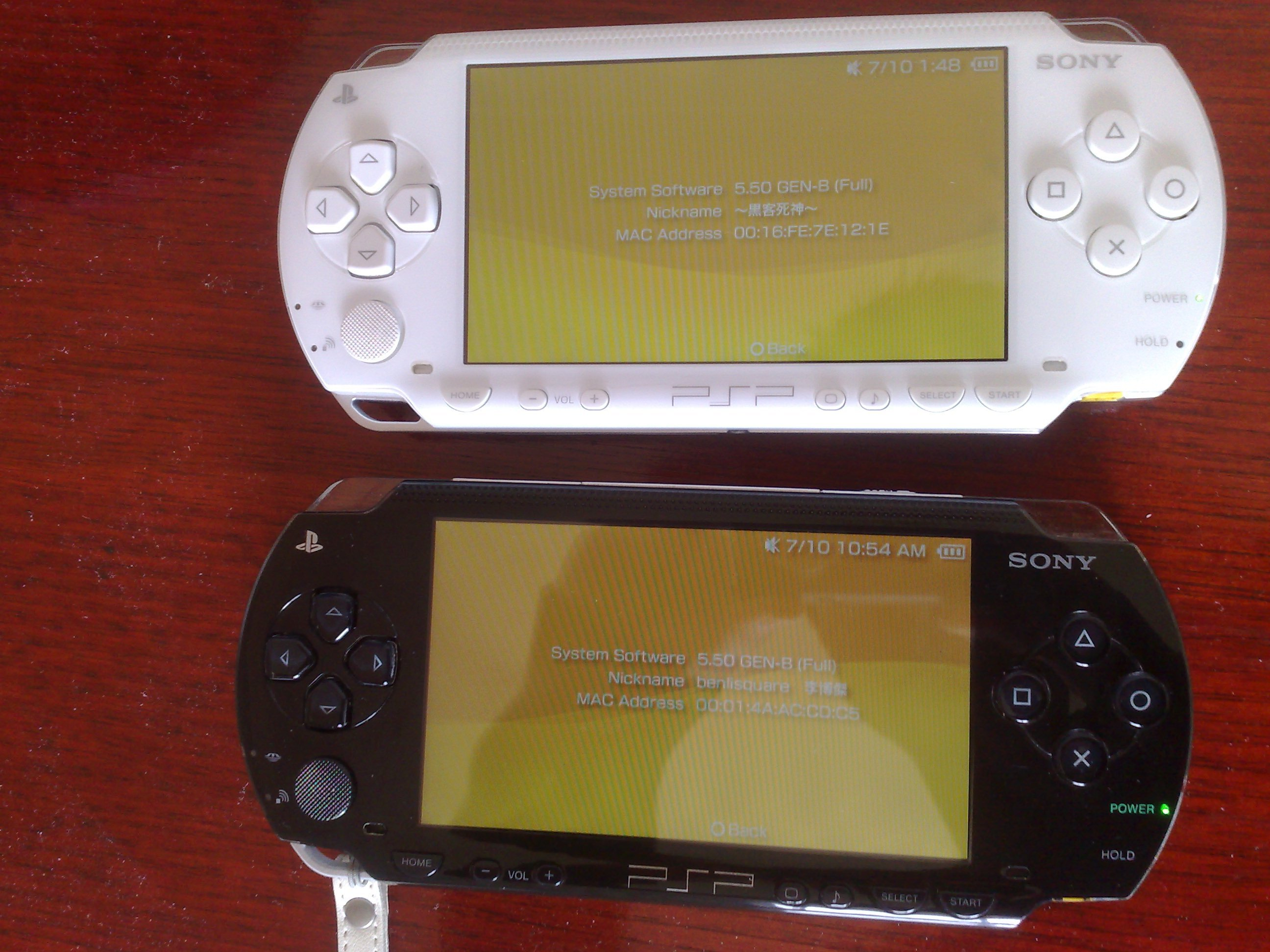 A pair of hacked PSP-1002s, one black and one white, running on CFW 5.50GEN-B. Both PSPs downgraded and/or flashed by user.